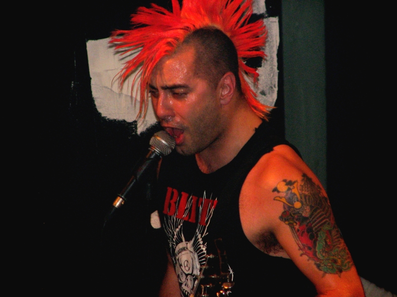 The Casualties, New York punk band, during "Under Attack. European Tour 2007" gig in Polish city Gdynia.